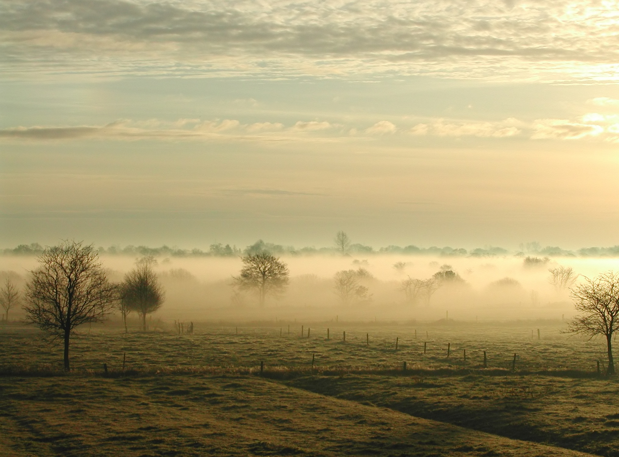 Ground fog in East Frisia (Moordorf)